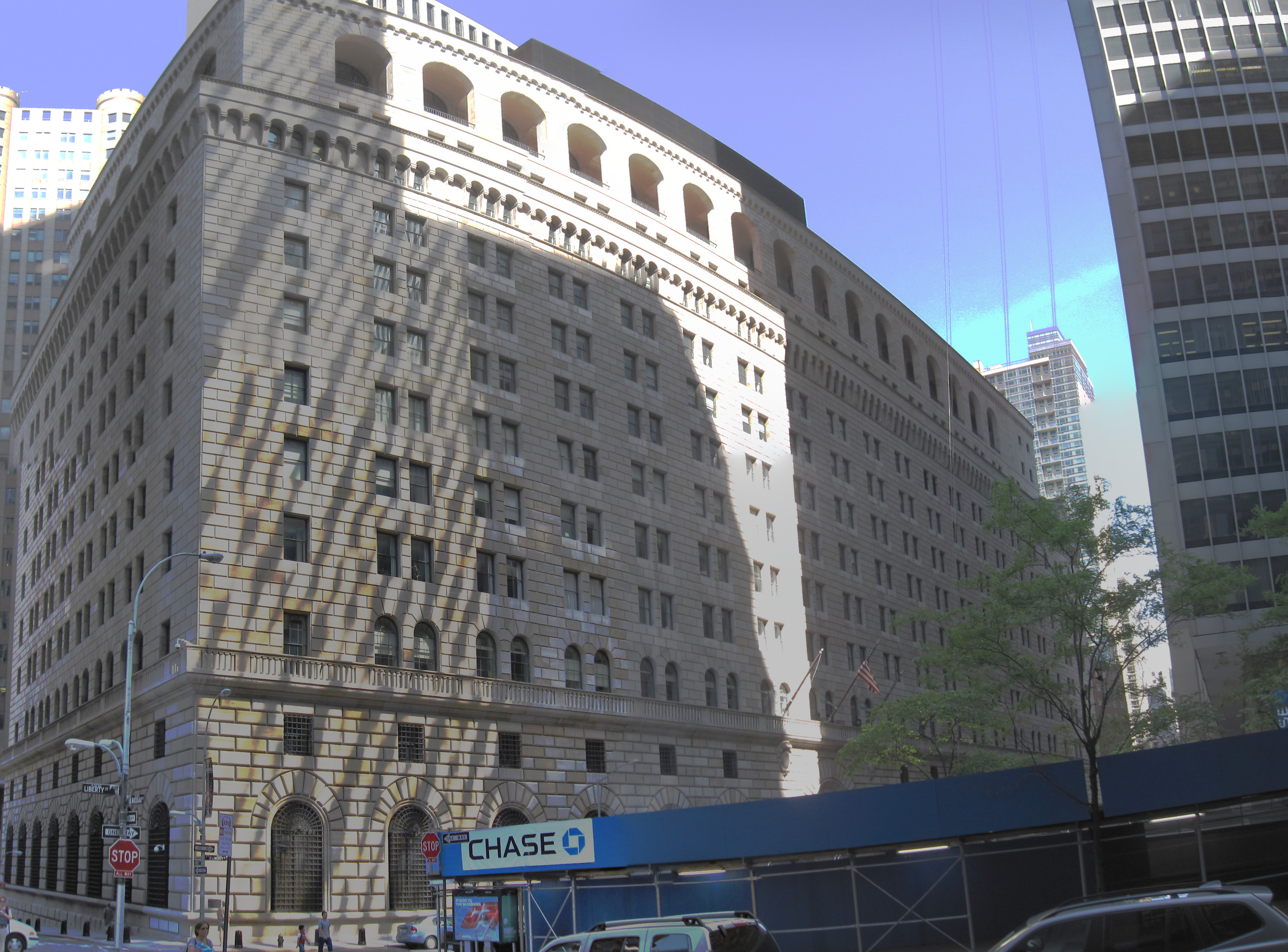 33 Liberty Street